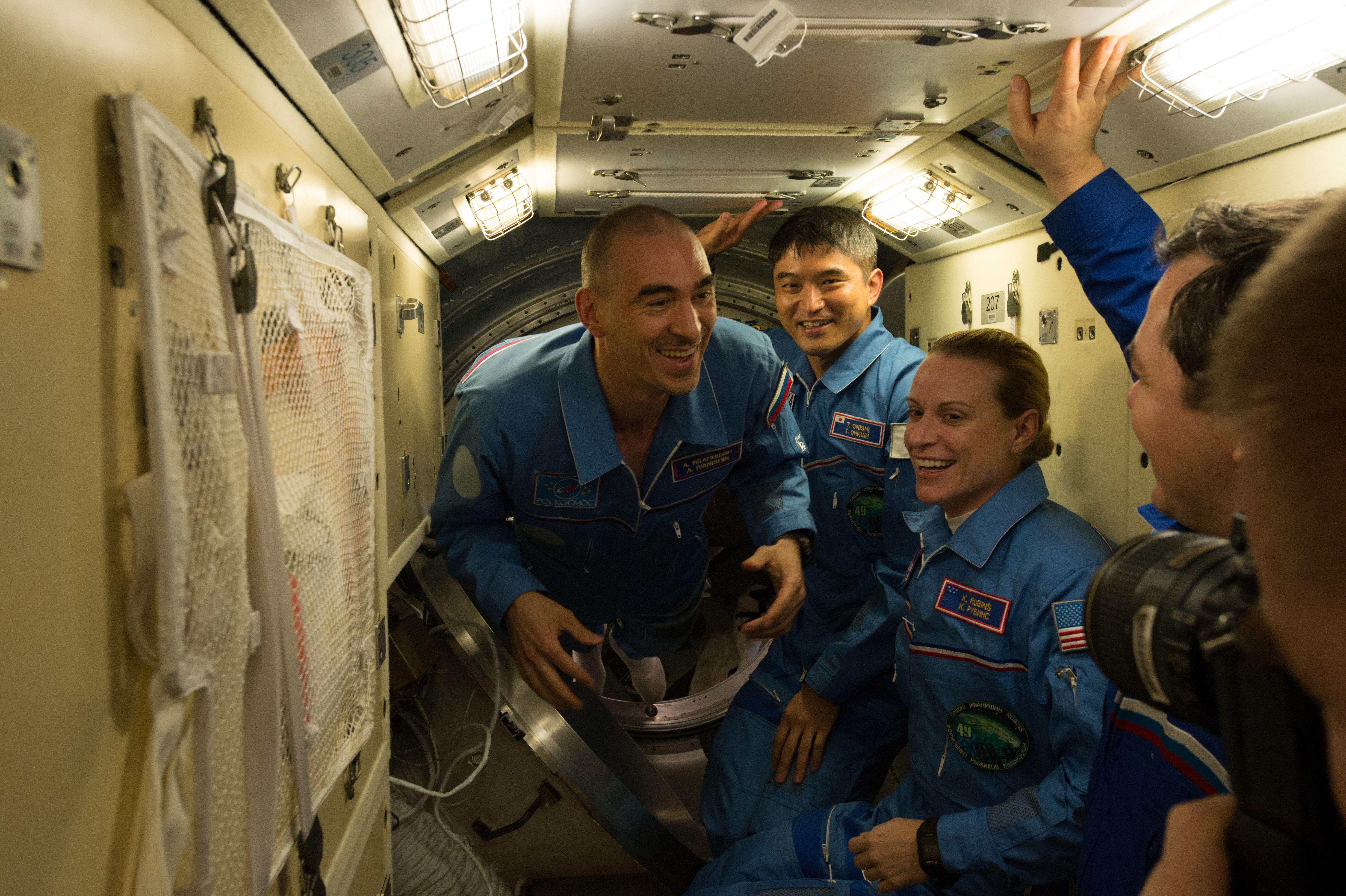 Anatoly Ivanishin of Roscosmos (left), Takuya Onishi of the Japan Aerospace Exploration Agency (JAXA) (middle) and Kate Rubins of NASA (right) arrive onboard the International Space Station. The trio launched from the Baikonur Cosmodrome in Kazakhstan on July 7 and arrived at the station after a two day rendezvous.